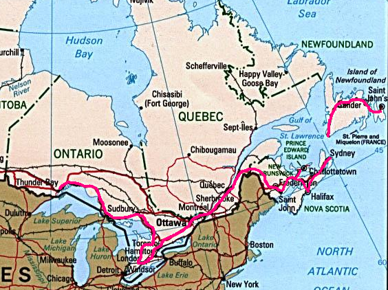 The path Terry Fox took on his Marathon of Hope marathon across Canada. He was forced to end his run outside of Thunder Bay.